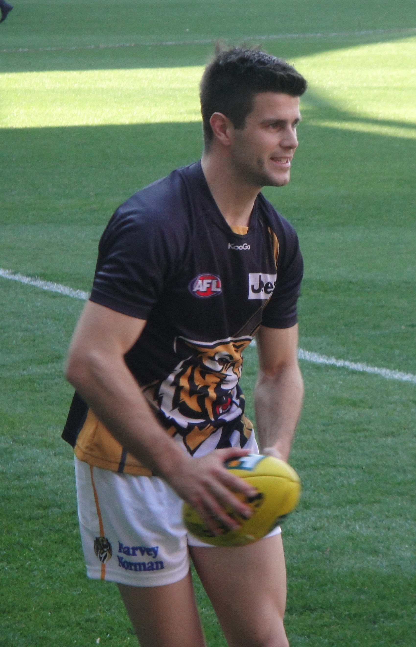 Richmond captain Trent Cotchin warming up before a match in 2013.